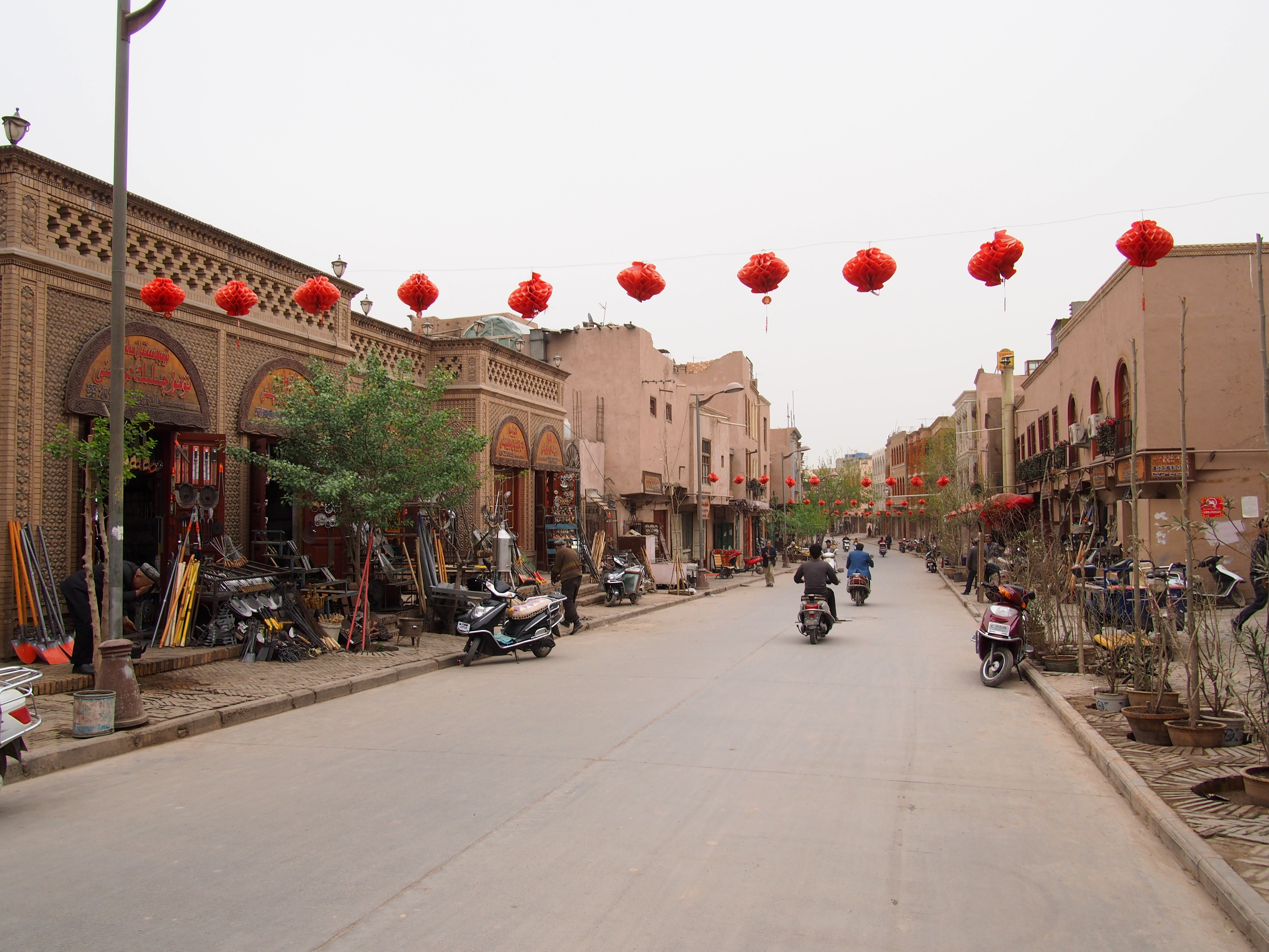 喀什老城 - Kashgar Old Town - 2015.04